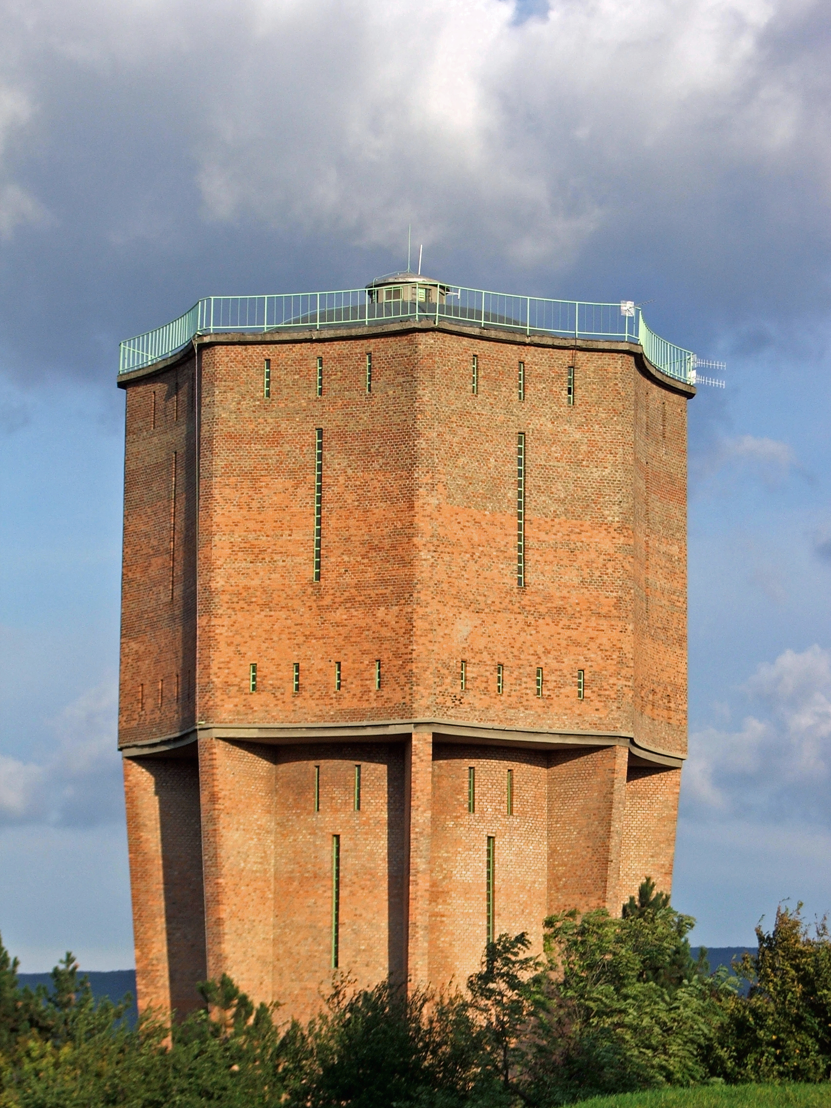 Water tower in Calvary Hill